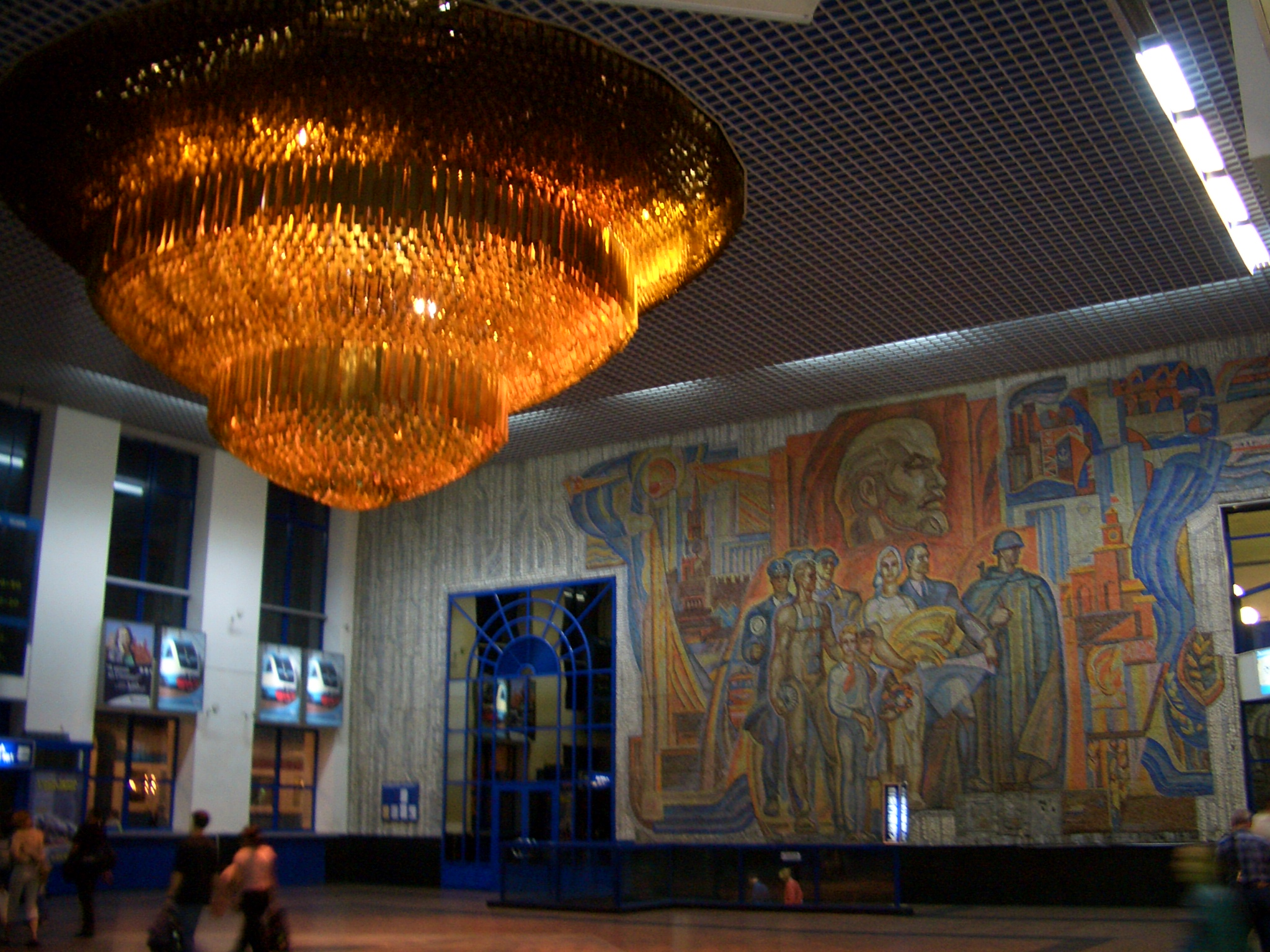 The main hall of Moscow Rail Station in Nizhny Novgorod, Russia. The all-wall mosaic (from the 1960s or 70s) shows happy workers, peasants, children, a soldier, and of course railroad workers. The lamp is probably from the 1990s.